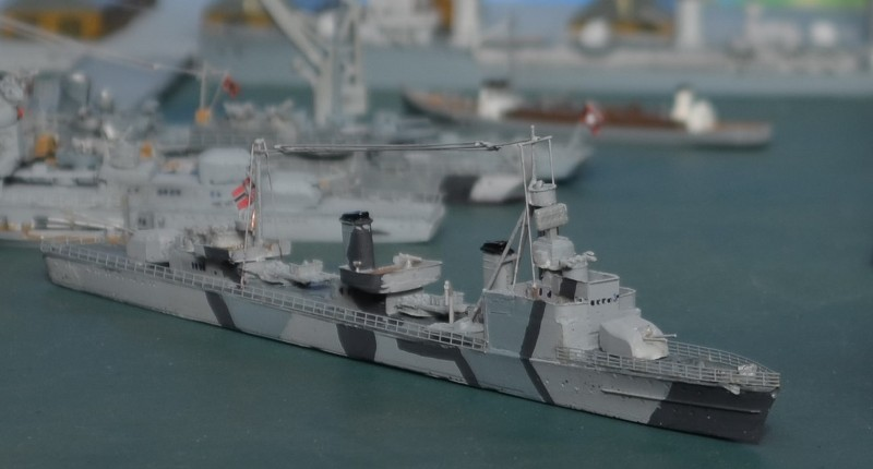 Zerstörer 1938B was a German project for a small destroyer for use in the Baltic Sea and North Sea. The kit is Resin 1/700 from Bird Models. More pics of the same model are in